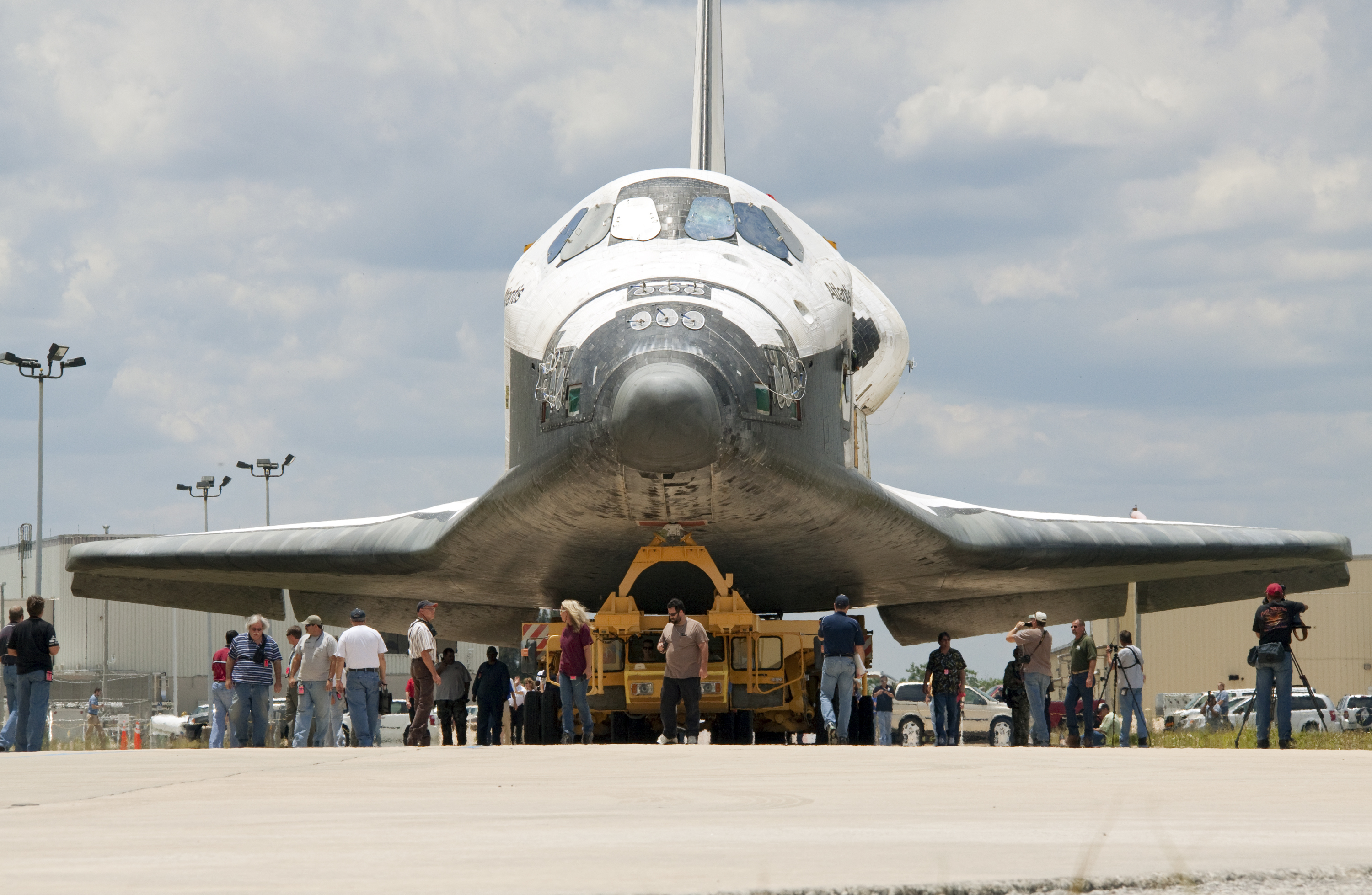 Members of the media and Kennedy workers snap photos of shuttle Atlantis as it makes its final planned move from Orbiter Processing Facility-1 to the Vehicle Assembly Building (VAB) at NASA's Kennedy Space Center in Florida. The move called "rollover" is a major milestone in processing for the STS-135 mission to the International Space Station. Commander Chris Ferguson, Pilot Doug Hurley and Mission Specialists Sandra Magnus and Rex Walheim are expected to launch mid July, taking with them the Raffaello multipurpose logistics module packed with supplies, logistics and spare parts. The STS-135 mission also will fly a system to investigate the potential for robotically refueling existing spacecraft and return a failed ammonia pump module to help NASA better understand the failure mechanism and improve pump designs for future systems. STS-135 will be the 33rd flight of Atlantis, the 37th shuttle mission to the space station, and the 135th and final mission of NASA's Space Shuttle Program.